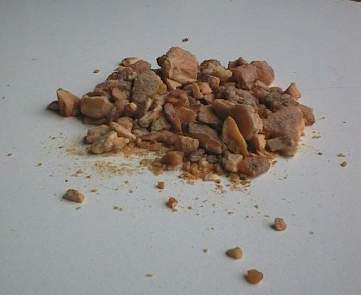 Benzoin resin